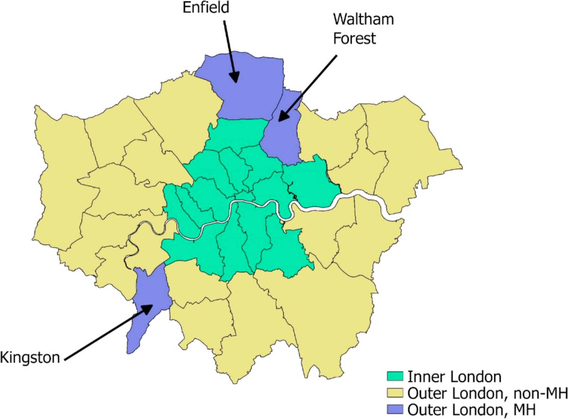 Map showing the London boroughs taking part in the Mini-Holland programme